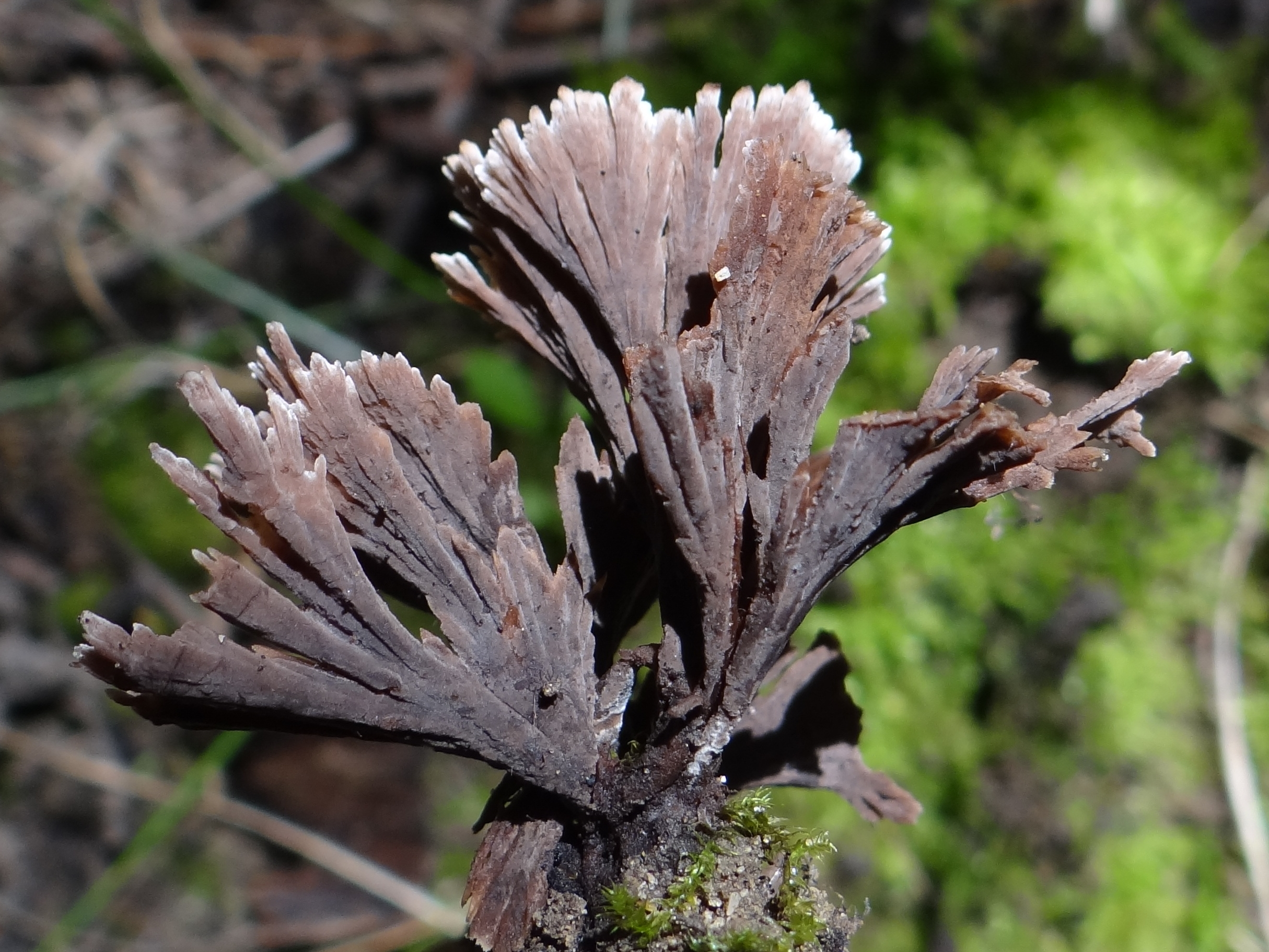 Thelephora caryophyllea